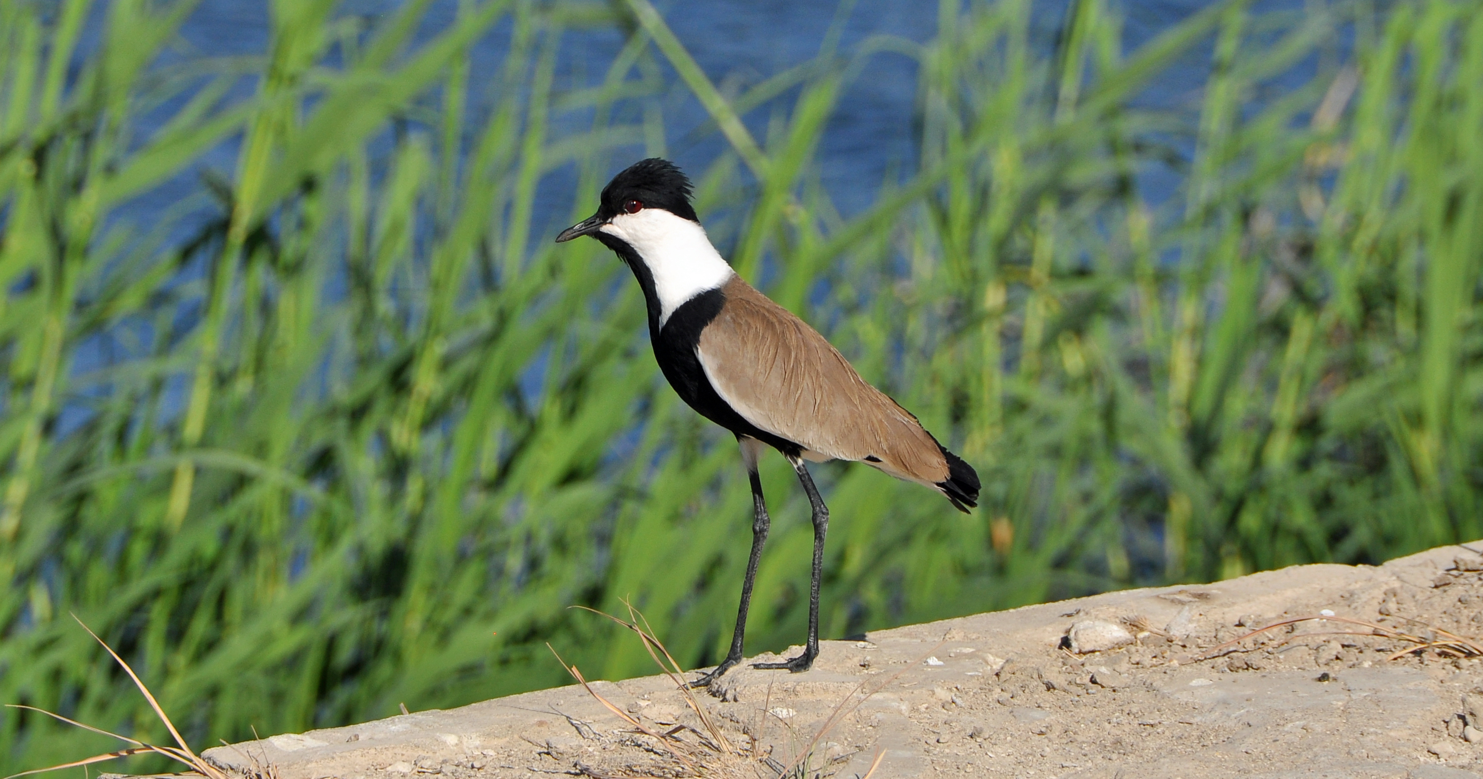 Spur-winged lapwing (Vanellus spinosus)